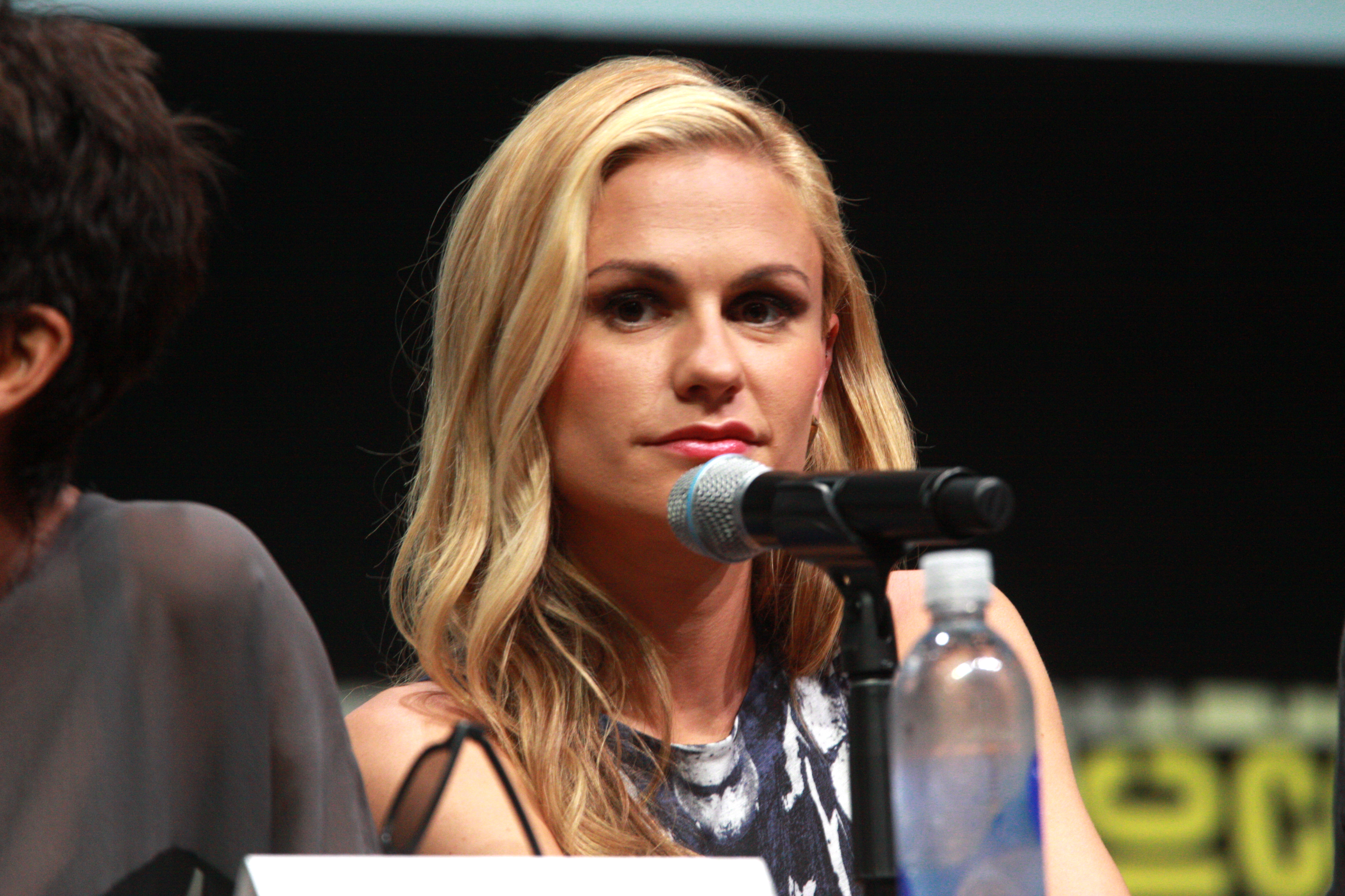 Anna Paquin speaking at the 2013 San Diego Comic Con International, for "X-Men: Days of Future Past", at the San Diego Convention Center in San Diego, California.